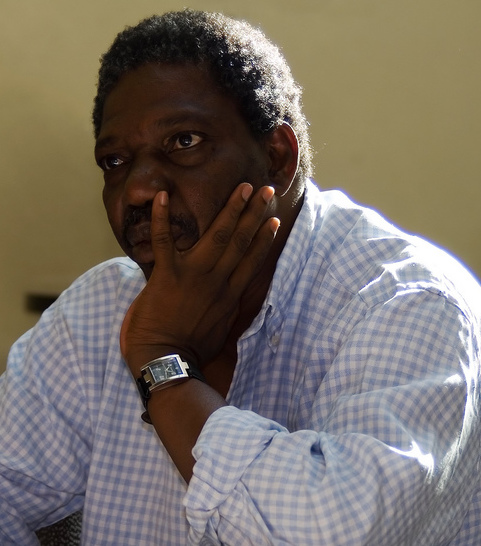 1SUR - 2007 Idrissa Ouédraogo, filmmaker from Burkina Faso, member of the jury of the Cines del Sur 2007